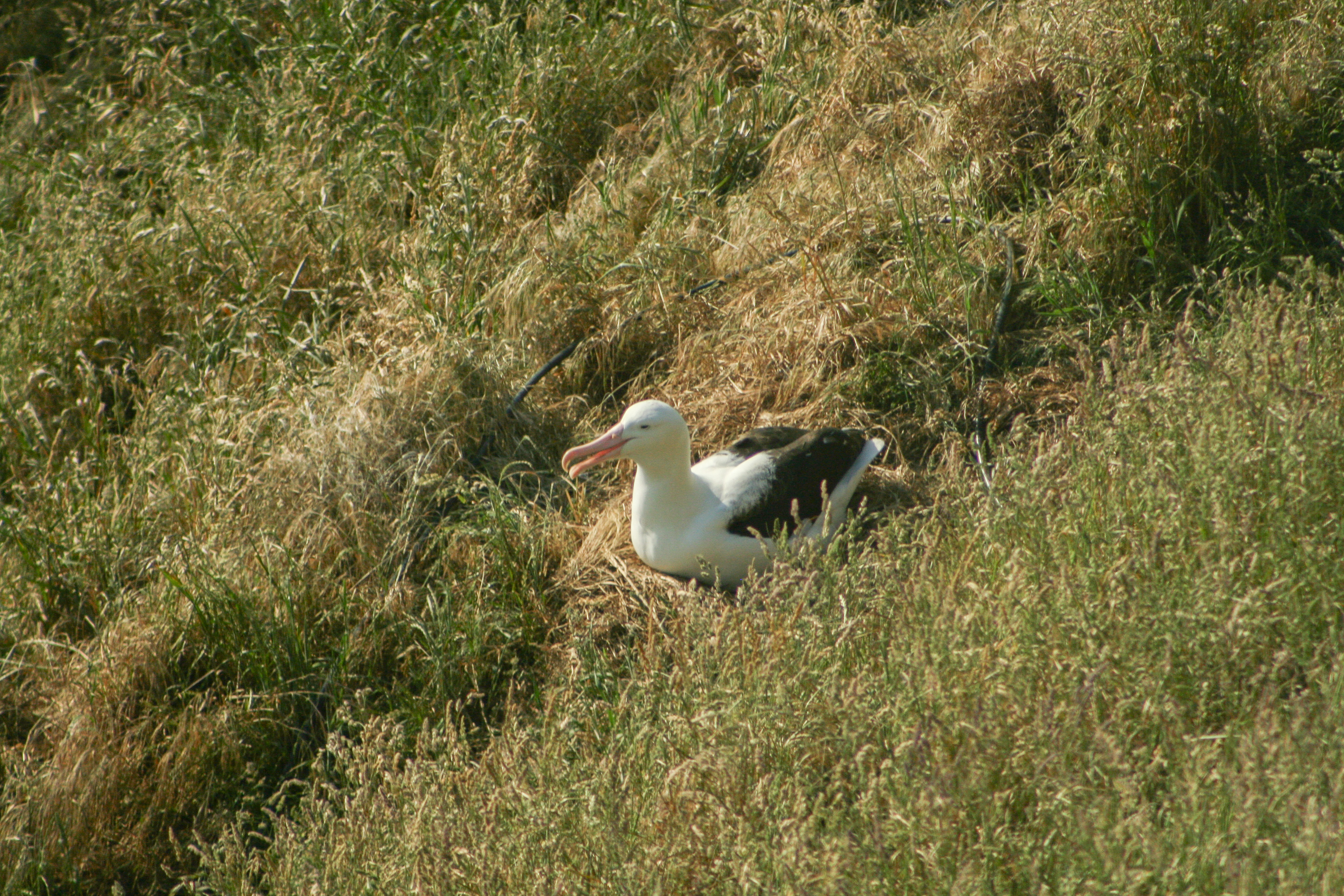 Royal Albatross (Diomedea sanfordi) in New Zealand